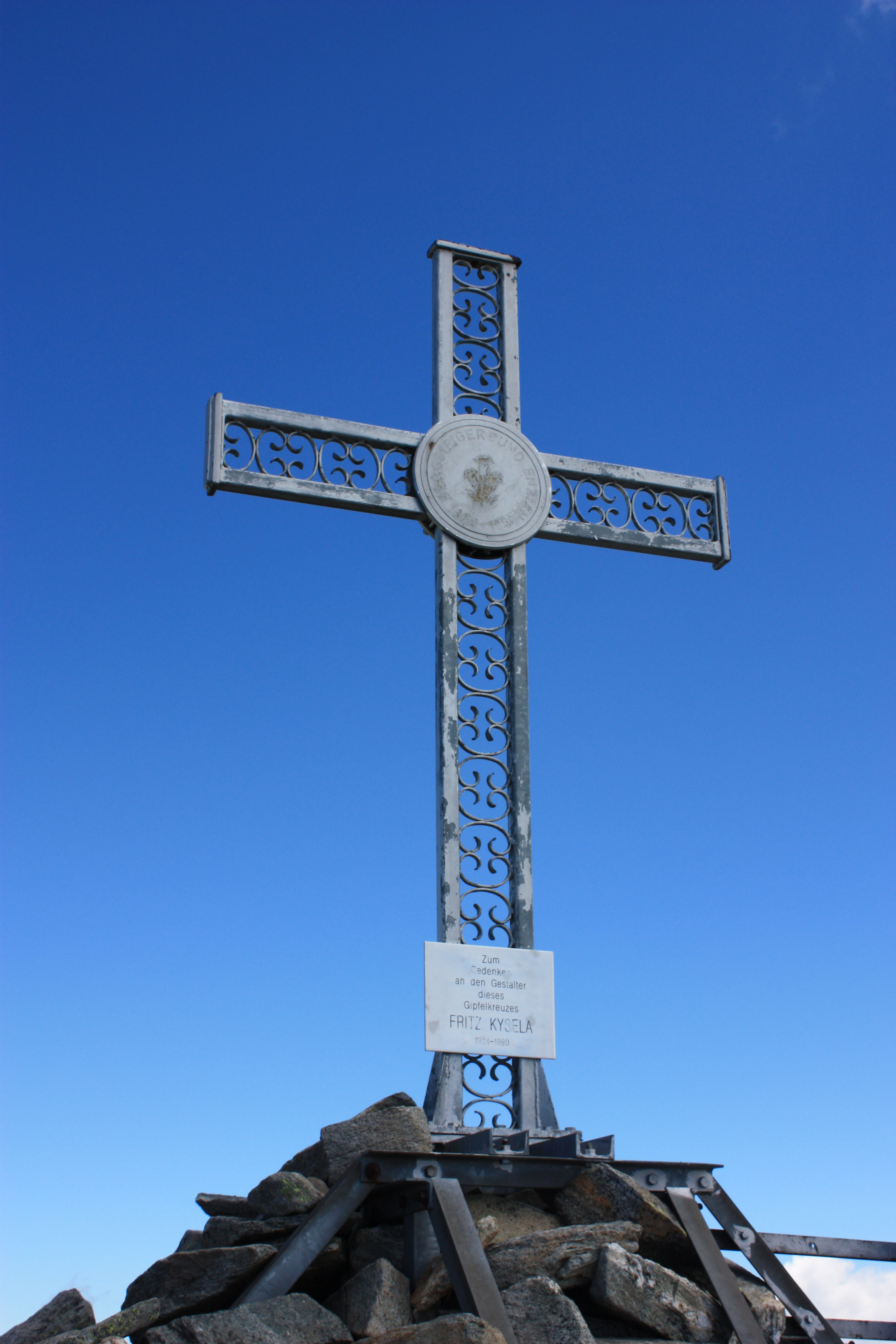 Summit cross on the Rißeck in the Reißeckgruppe (moutainsrange) in Carinthia